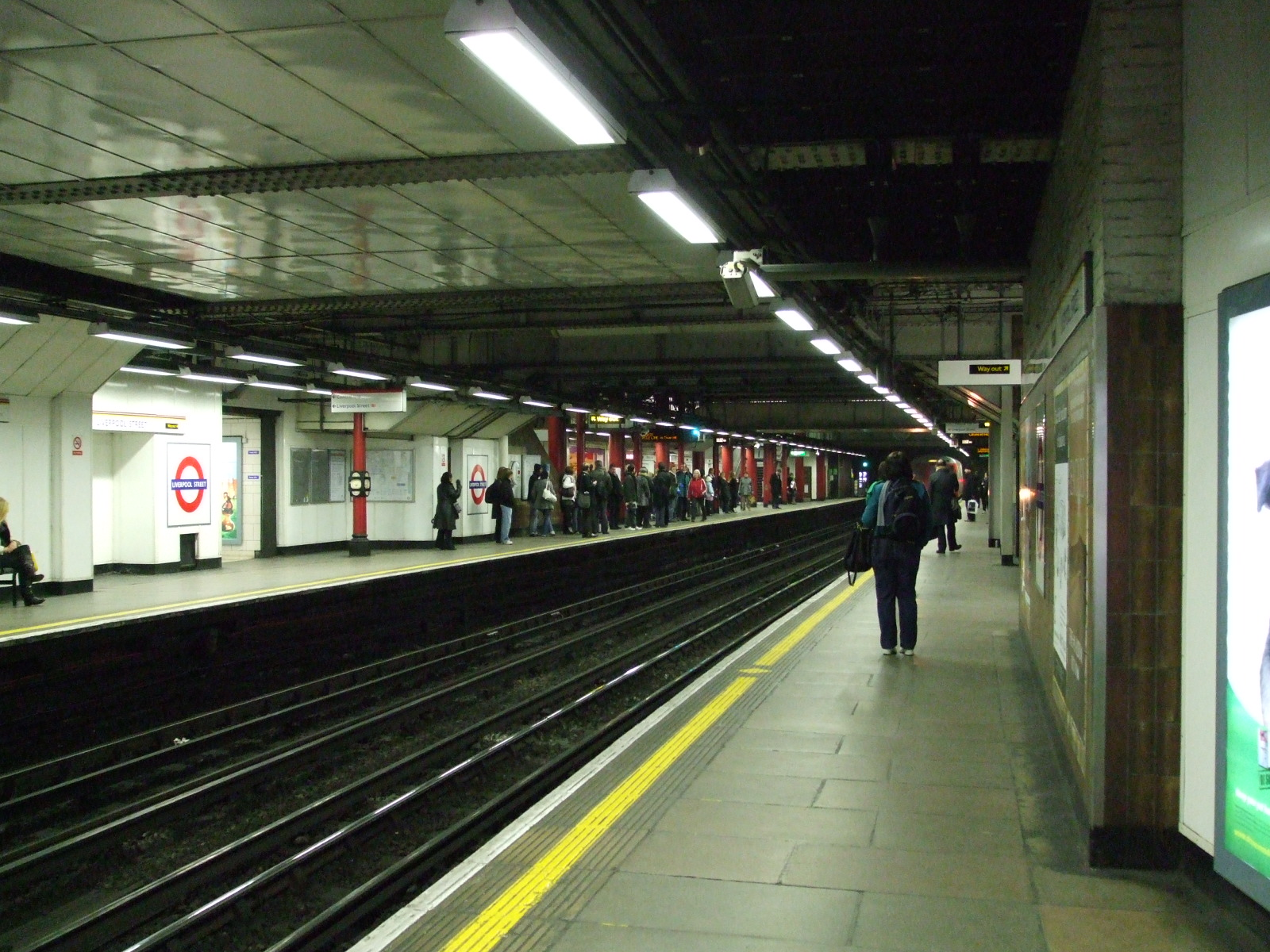 Liverpool Street Circle/Metropolitan/Hammersmith & City line platforms looking clockwise